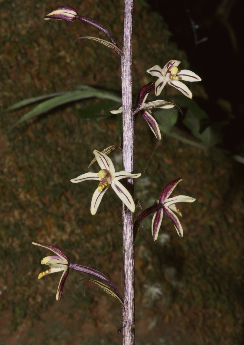 Aphyllorchis montana, Gunung Kemiri, North Sumatra